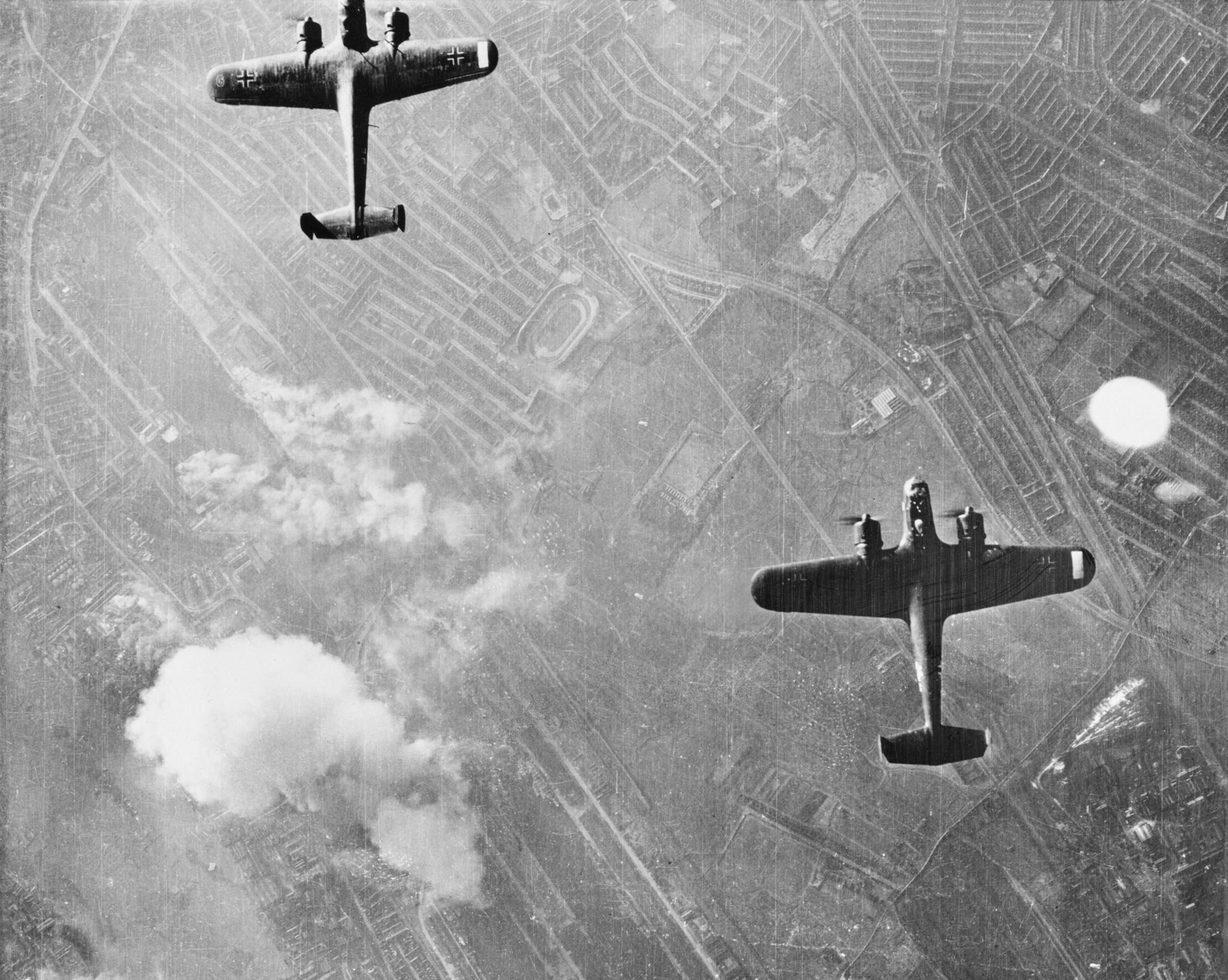 German Dornier Do 17 bombers over London, 7 September 1940. Operations: Two Dornier 17 bombers over West Ham, London.